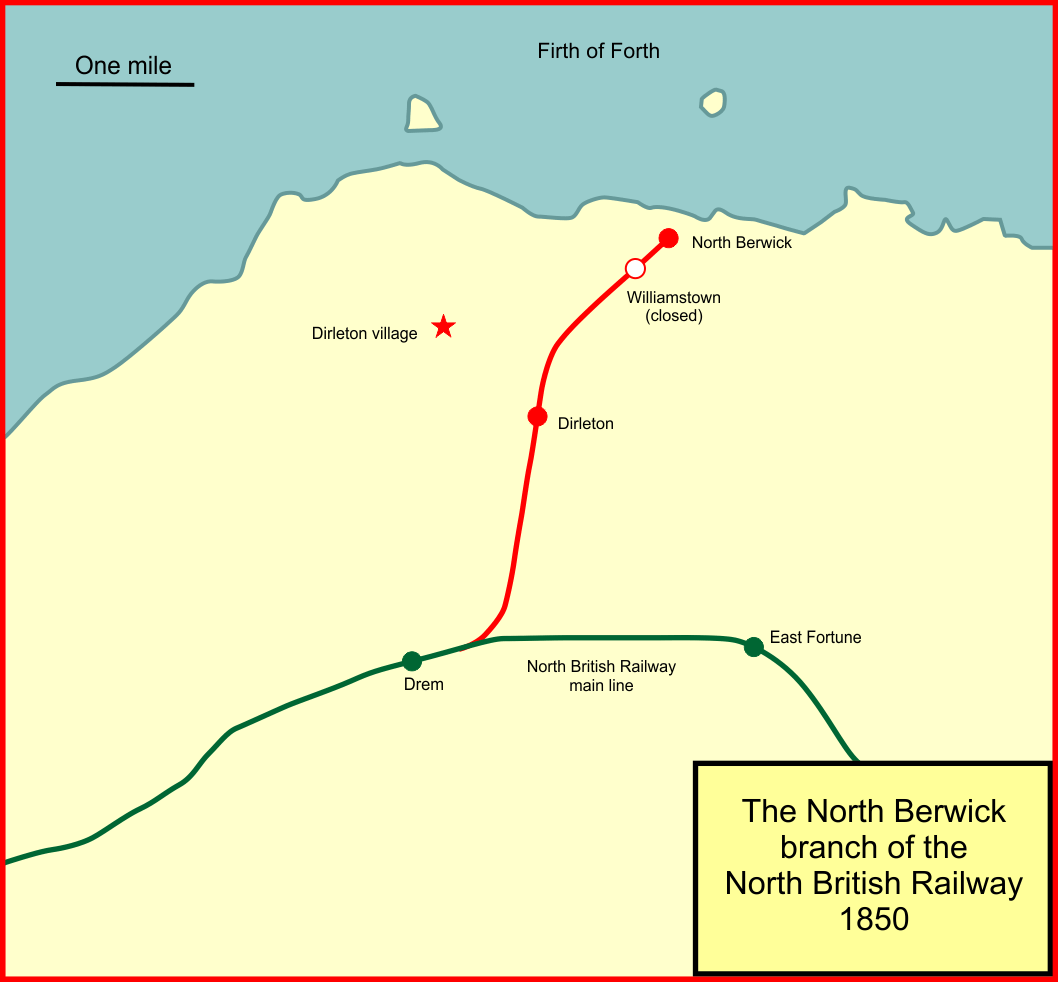 System map of the North Berwick branch railway, Scotland, 1850